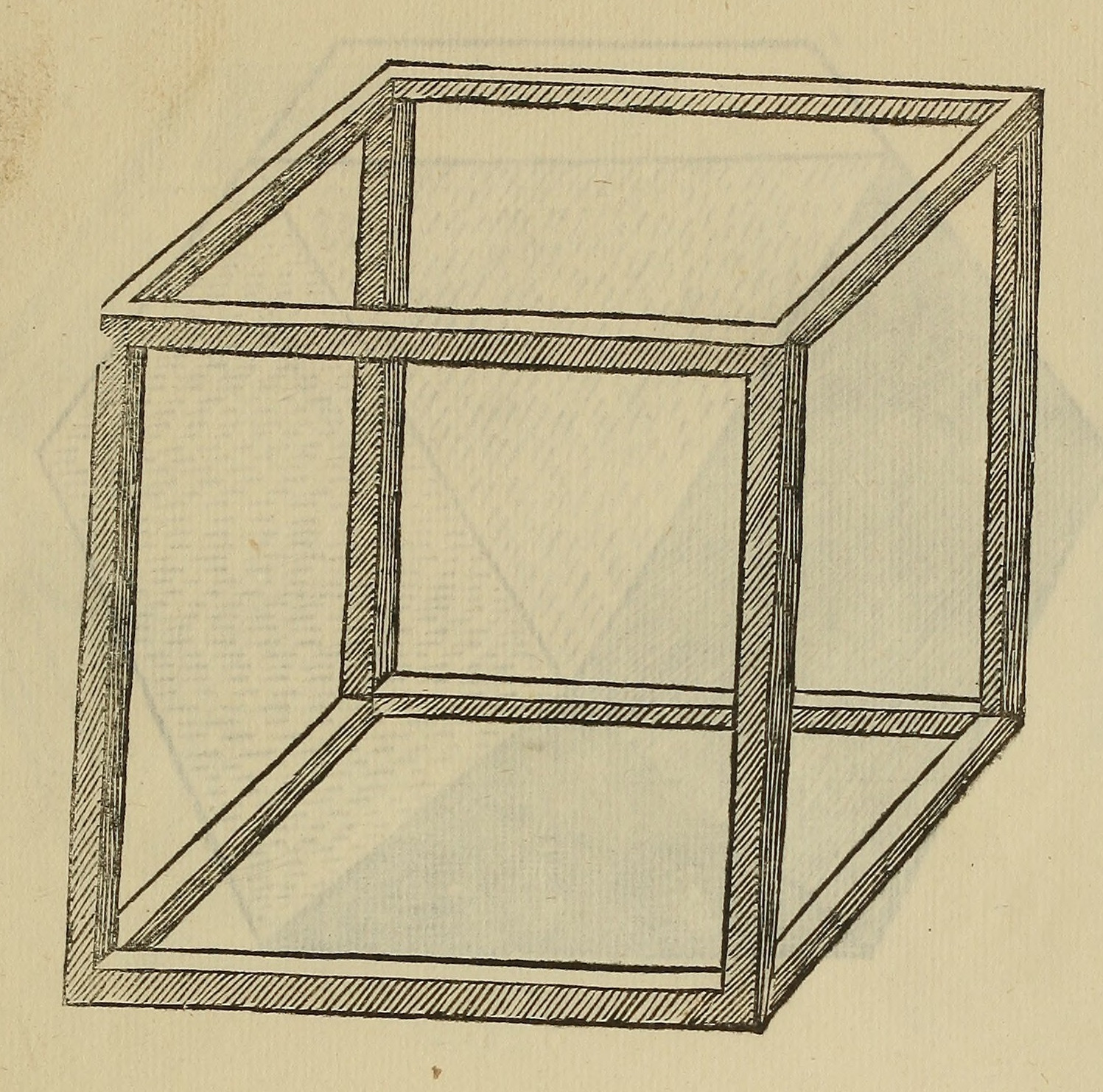 Illustrations by Leonardo da Vinci, from Luca Pacioli's "De divina proportione", 1509 edition.